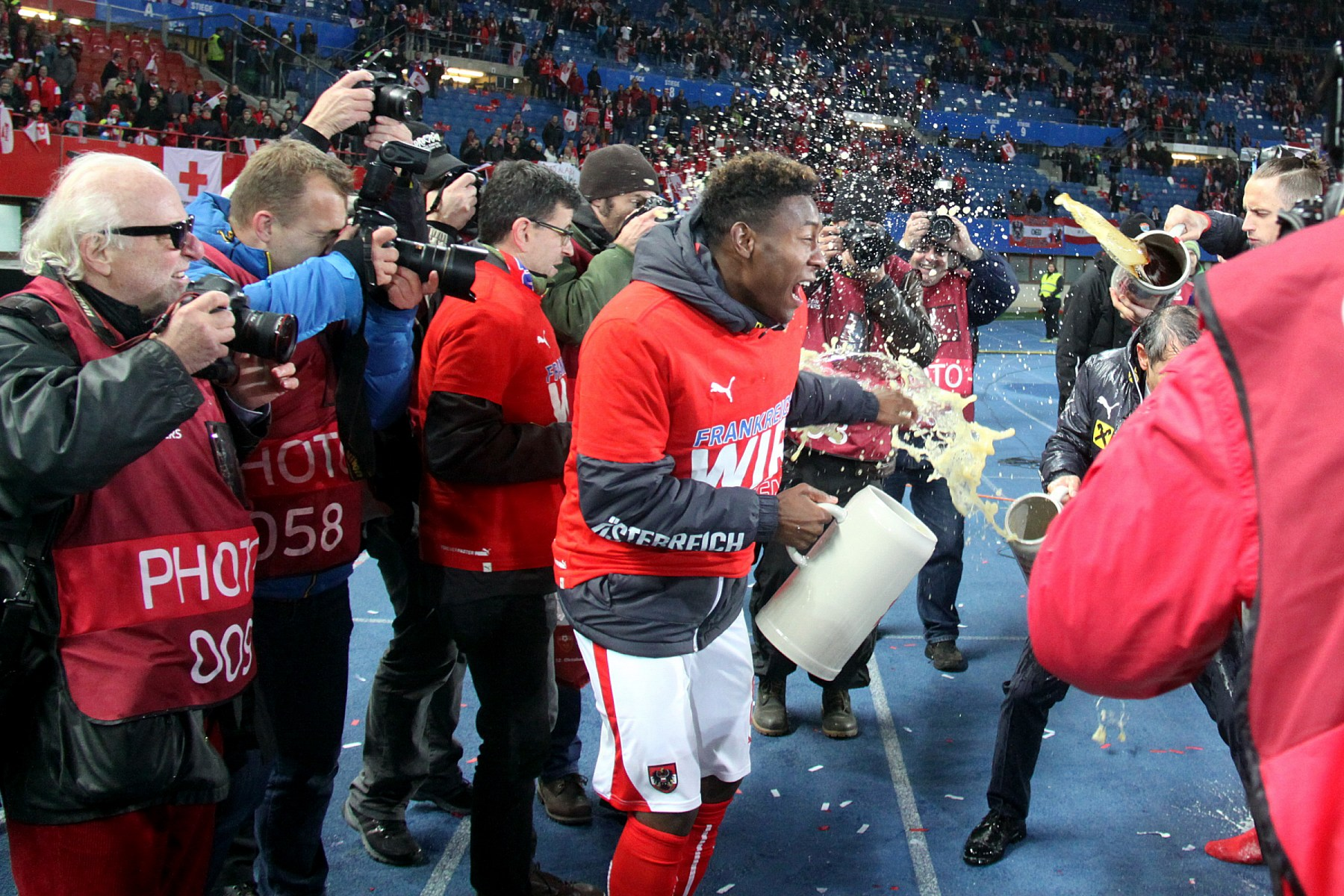 UEFA Euro 2016 qualifying, Group G – Austria (red shirts) vs. Liechtenstein (blue shirts) 3–0 (1–0) on 2015-10-12 in Ernst-Happel-Stadion, Vienna – The photo shows David Alaba at the celebration with the beer shower with Marcel Koller (headcoach of Austria) and Marko Arnautović.